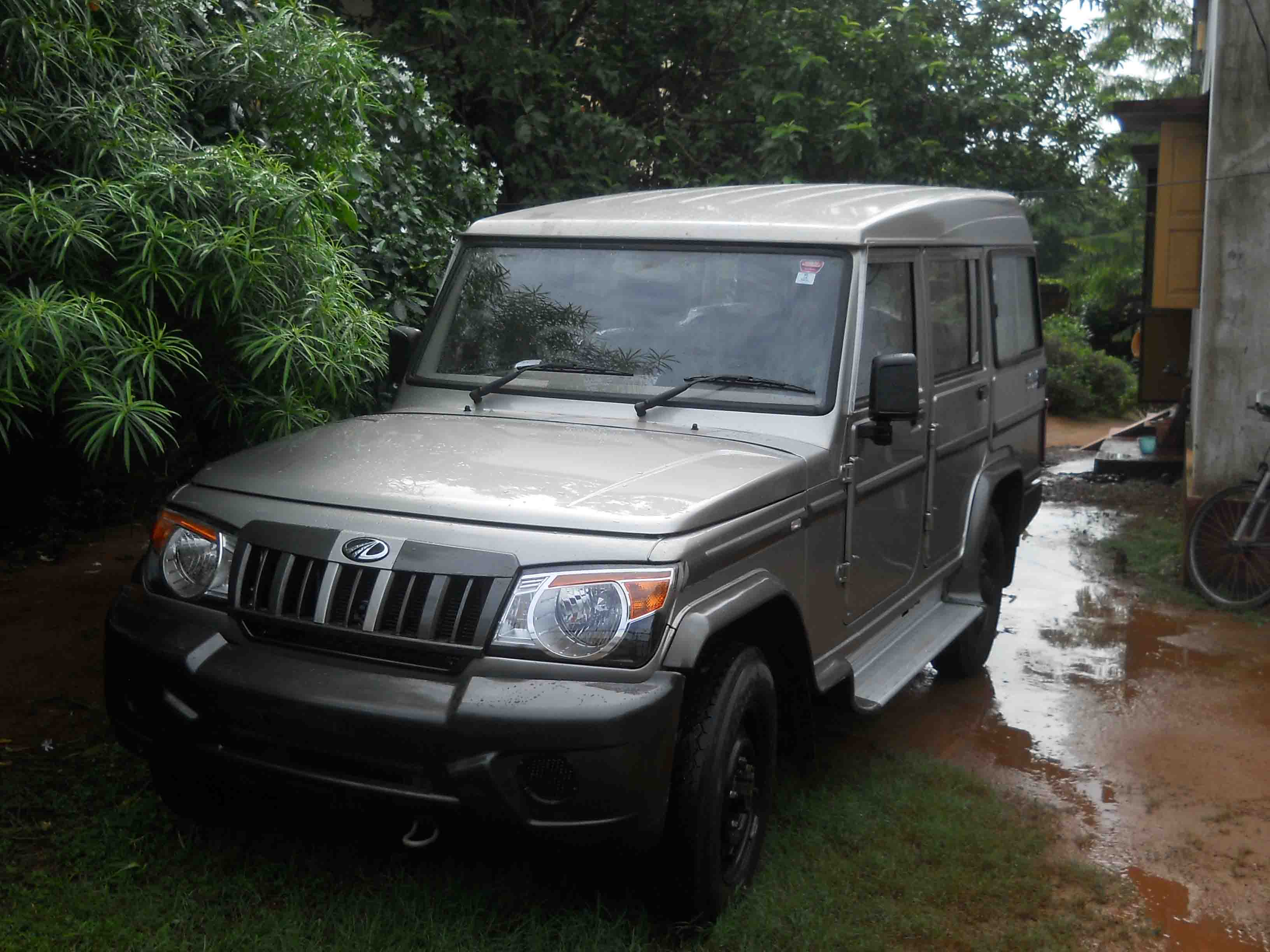 Mahindra Bolero ZLX in 2012